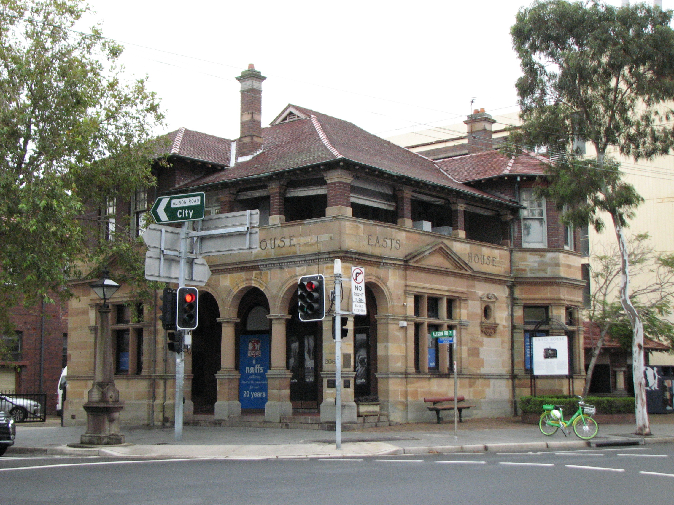 The former Randwick Post Office is now named Easts House